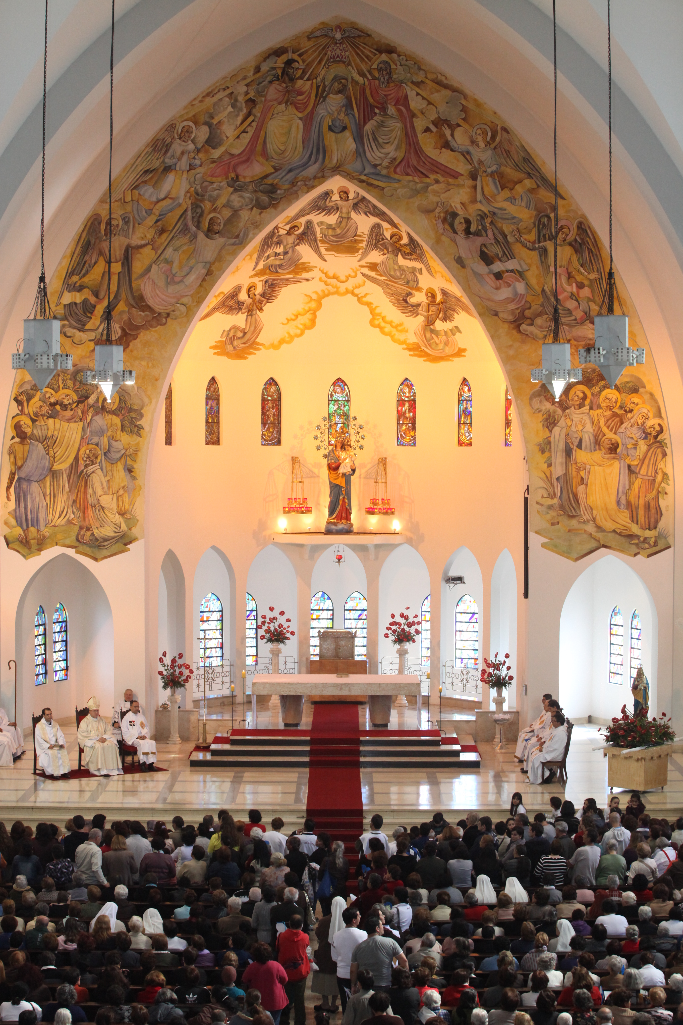 internal view